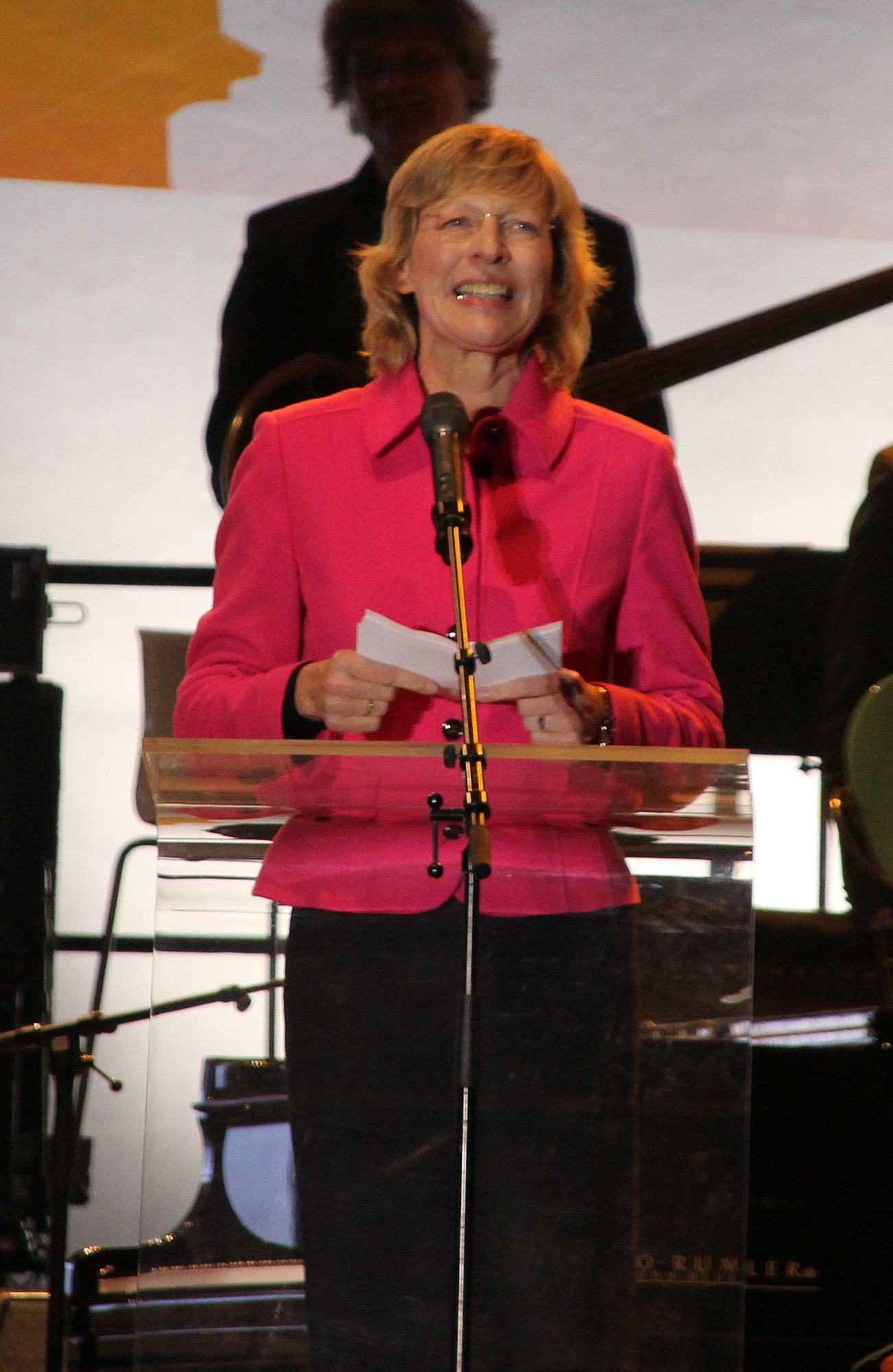 Federal Horticultural Show 2011 in Koblenz